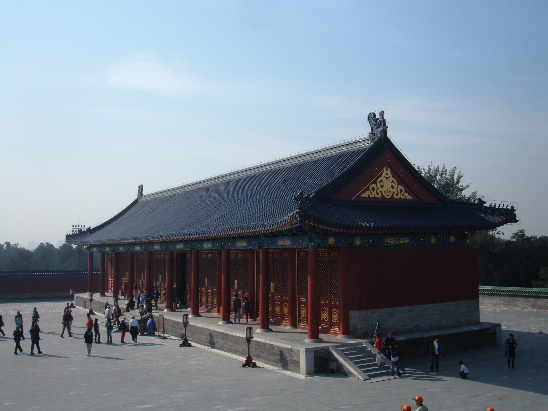 The West Annex Hall in the Temple of Prayer for Good Harvets courtyard in Temple of Heaven Park in Beijing, PRC.